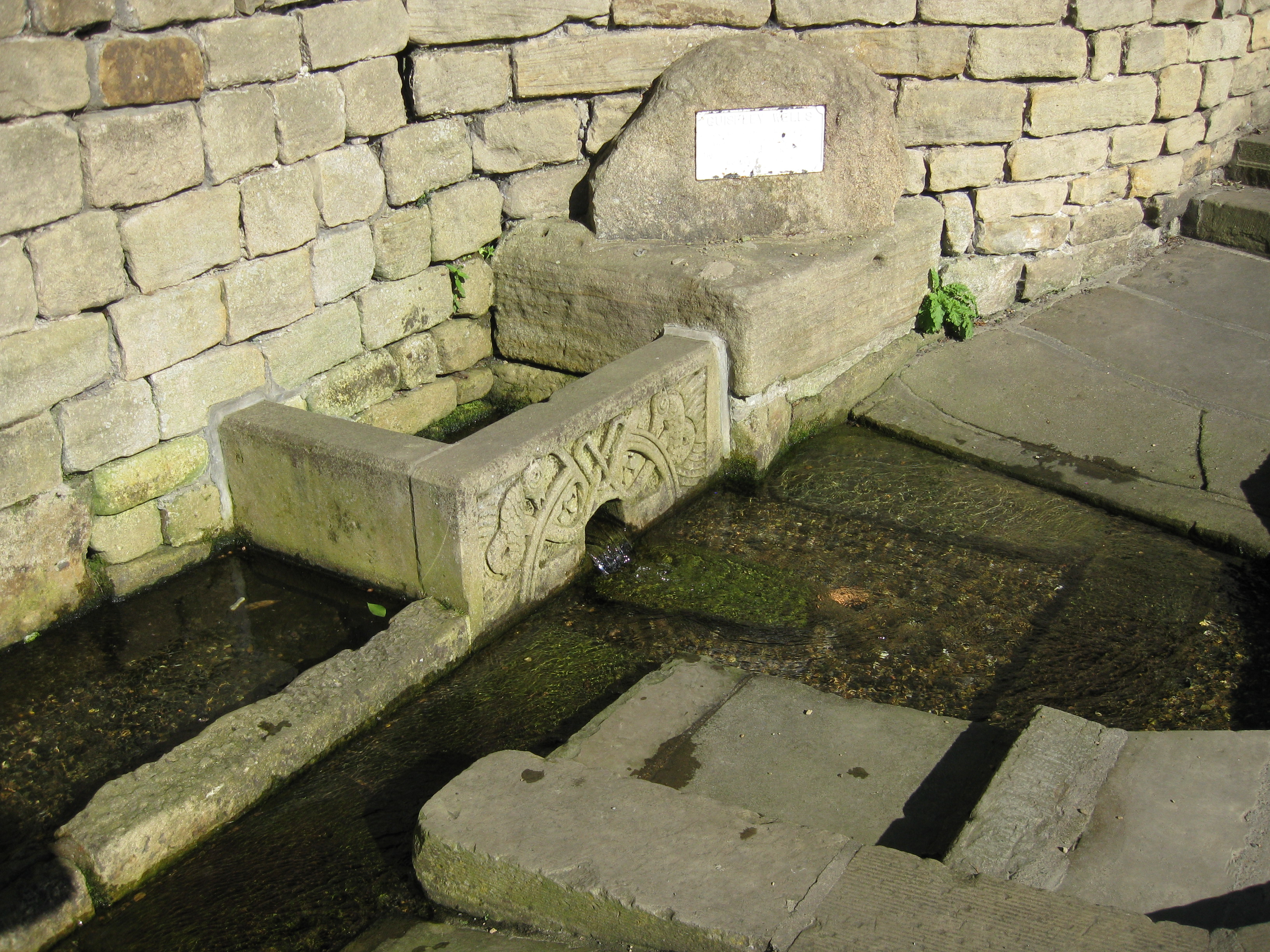 The old wells in Well Lane, Guiseley, Leeds. The spring around which the town grew.